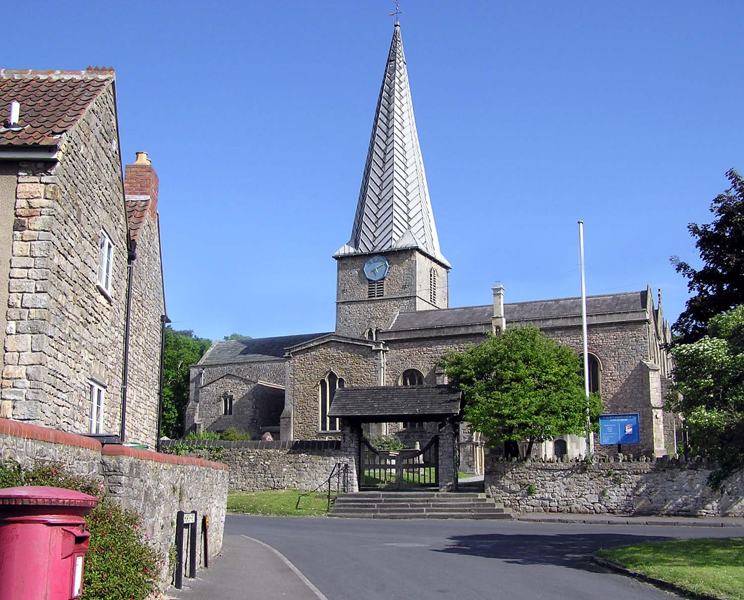 St Mary's parish church, Almondsbury, South Gloucestershire, seen from the northwest